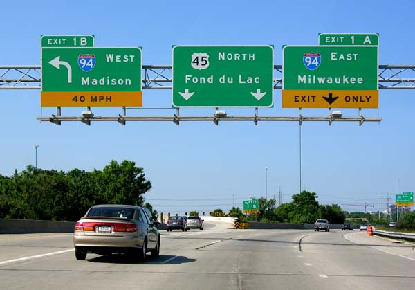 Zoo Interchange at the western terminus of Interstate 894 in Milwaukee, Wisconsin, USA.